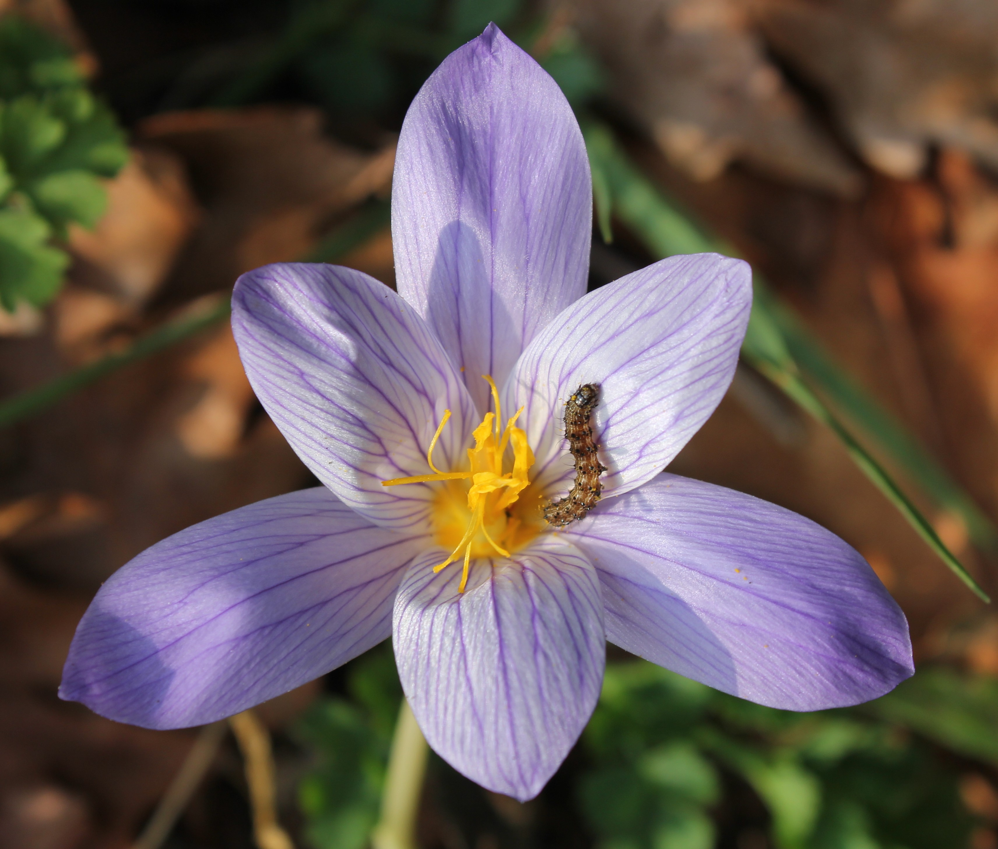 Crocus sakariensis tepals